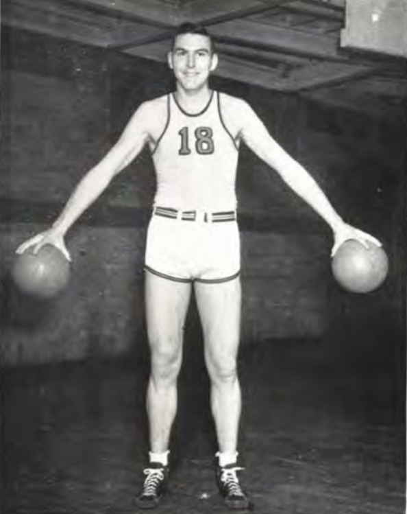 American college basketball player Don Otten of Bowling Green State University from the 1946 edition of the “Key” student yearbook.